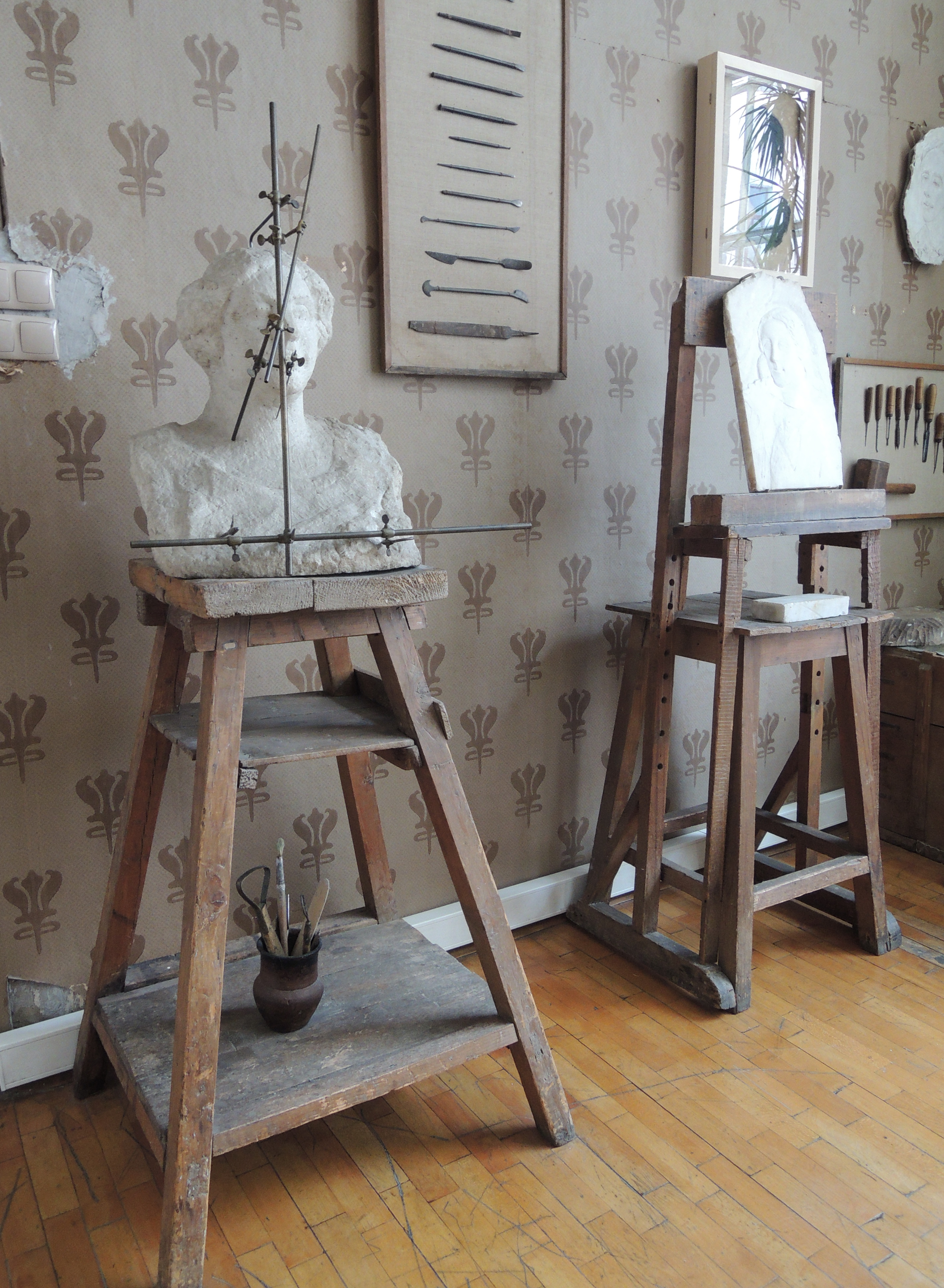 see filename. Own photo of work of sculptor Anna Golubkina (1864-1927)